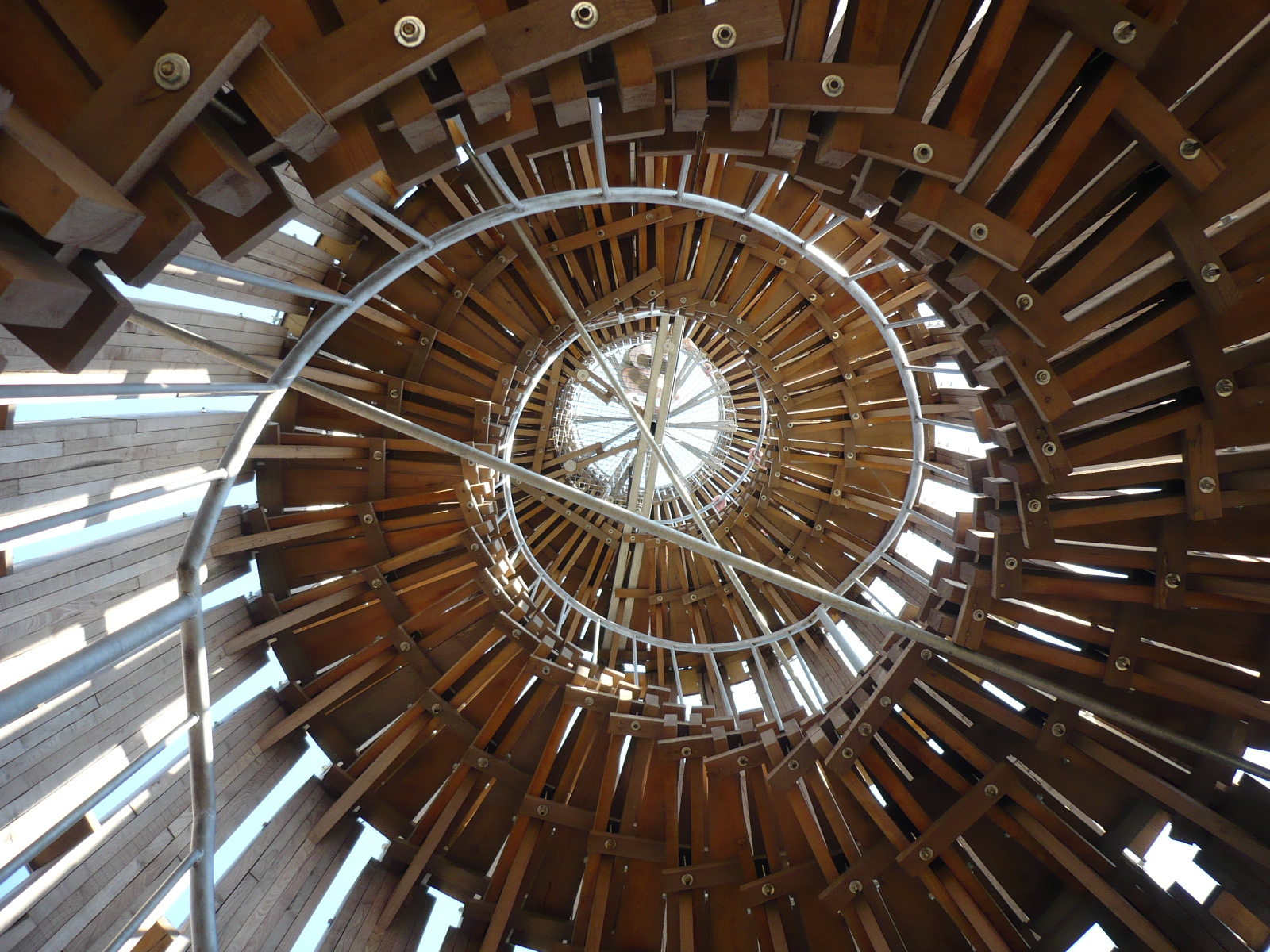 observation tower Akatova vez - upstairs, near Zidlochovice, Czech Republic